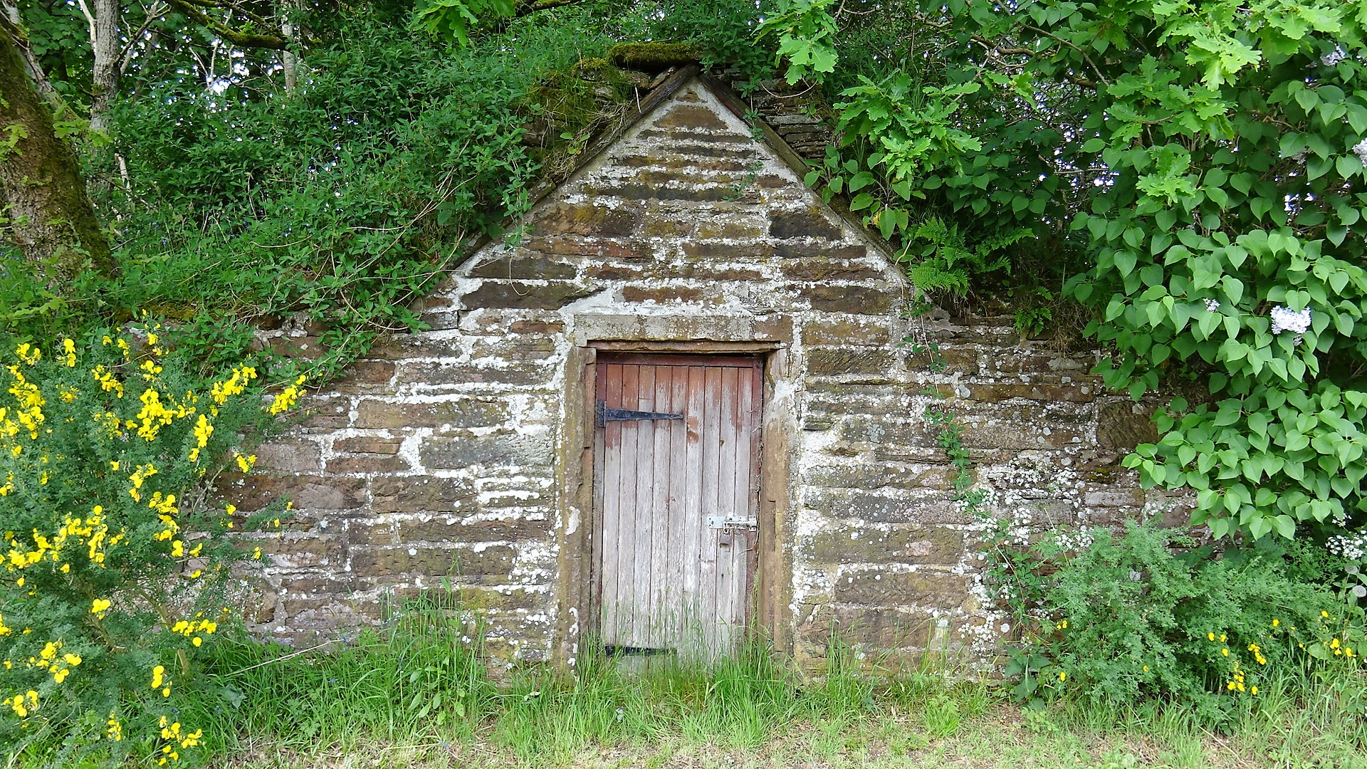 Powder House, Gatelawbridge, Dumfries & Galloway, Scotland. Associated with near by old red sandstone quarries.